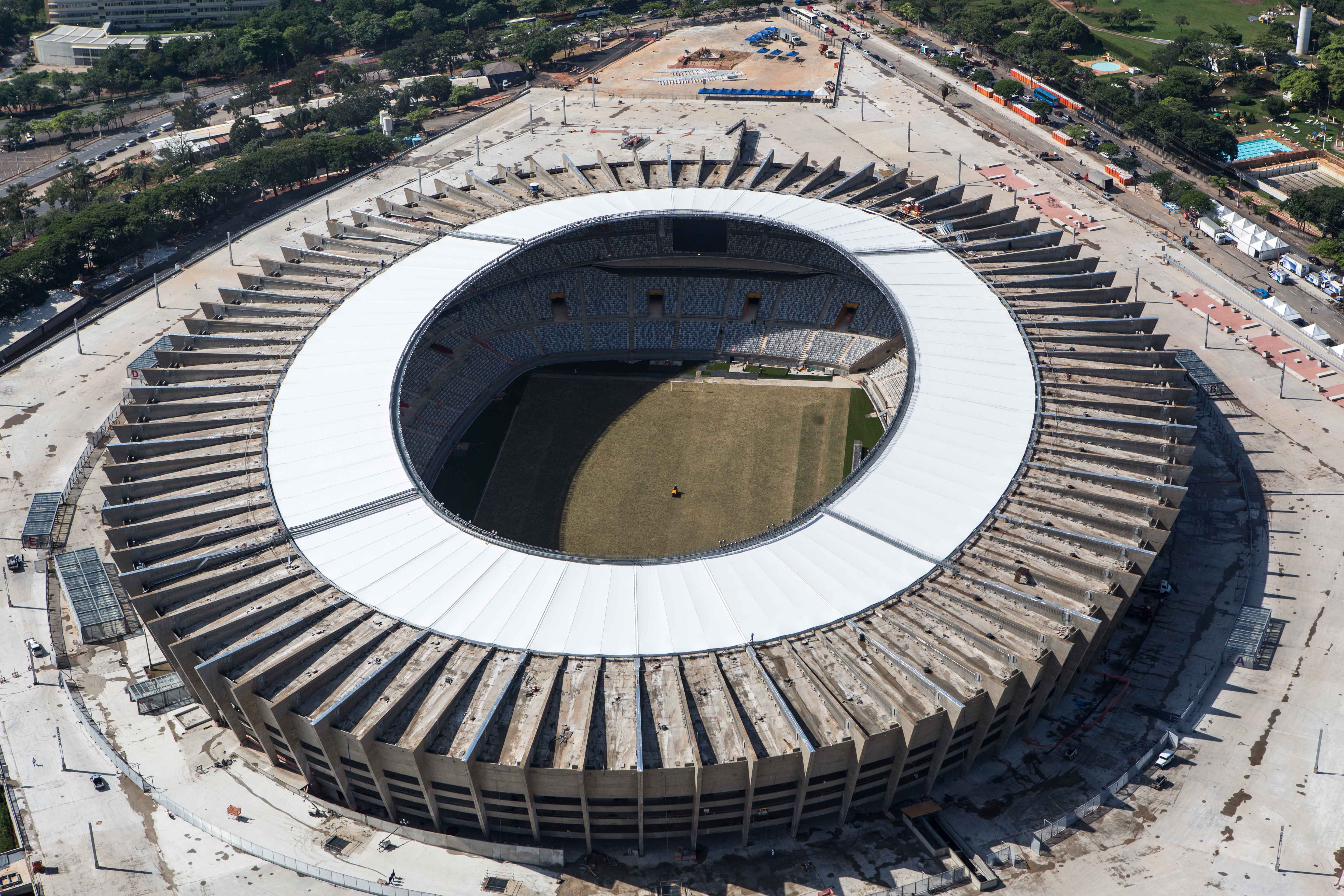 Belo Horizonte_MG. 12 de dezembro de 2012. FAQUINI Sobre voo por BH. Foto: RODRIGO LIMA / NITRO.